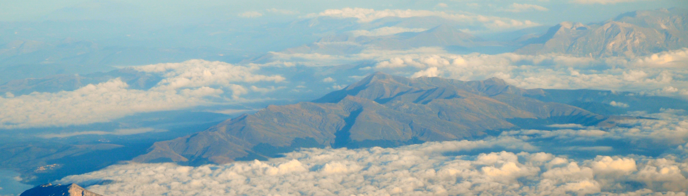 The mountain range Monti della Laga seen from the airplane. Part of the Central Apennines range, it is located on the border between Abruzzo and Lazio regions of Italy. The highest peak is Monte Gorzano (2,458 m).